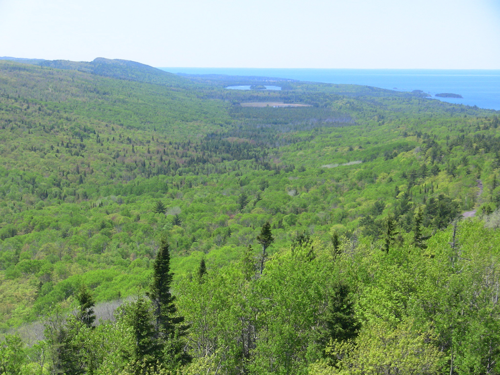 View down the Keweenaw Peninsula from Brockway Mountain in May 2015. Lake Superior is visible in the top-right, and Lake Upson and Lake Bailey are seen in the top-center.